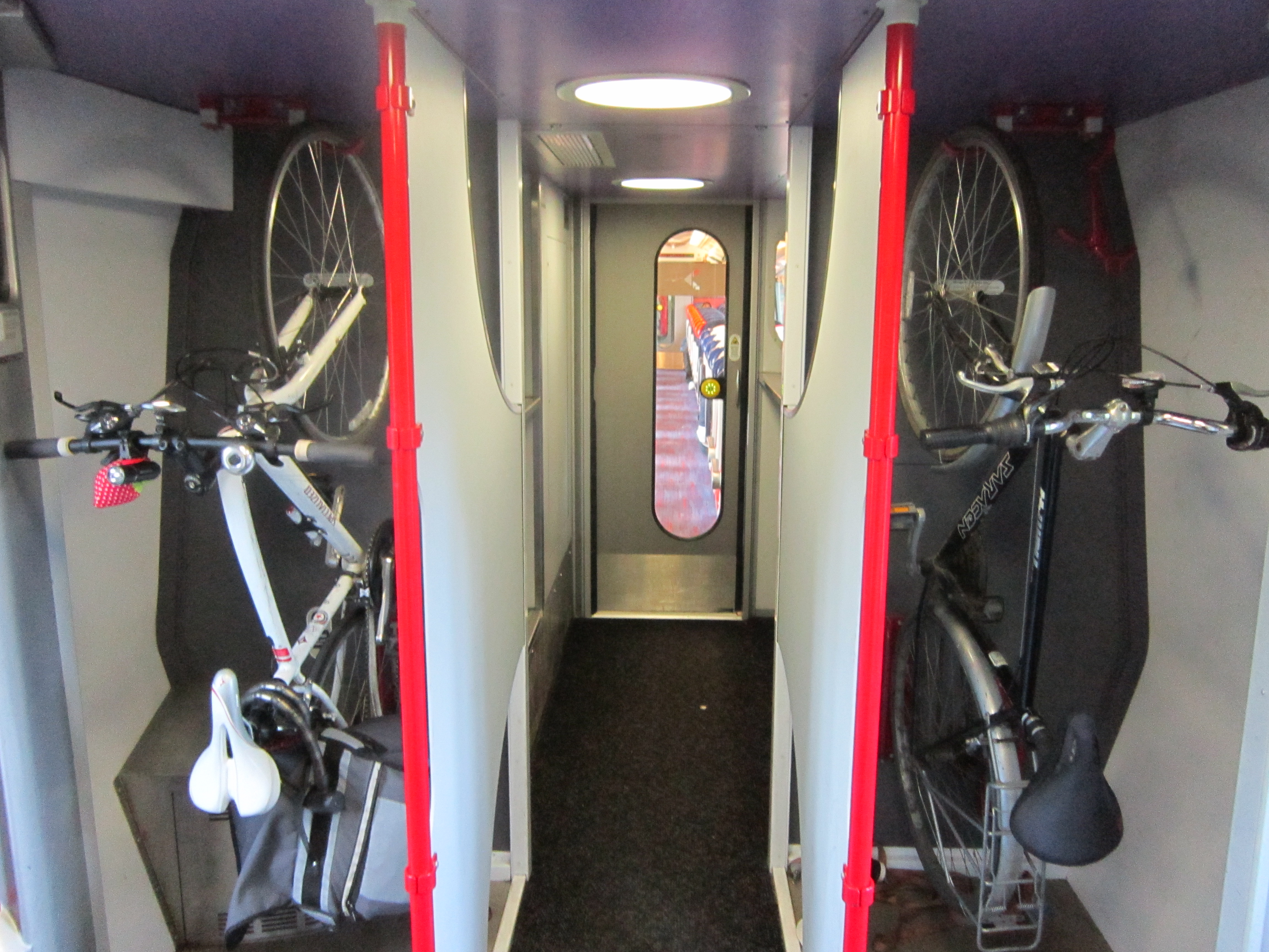 Bicycle storage in British Rail Class 221